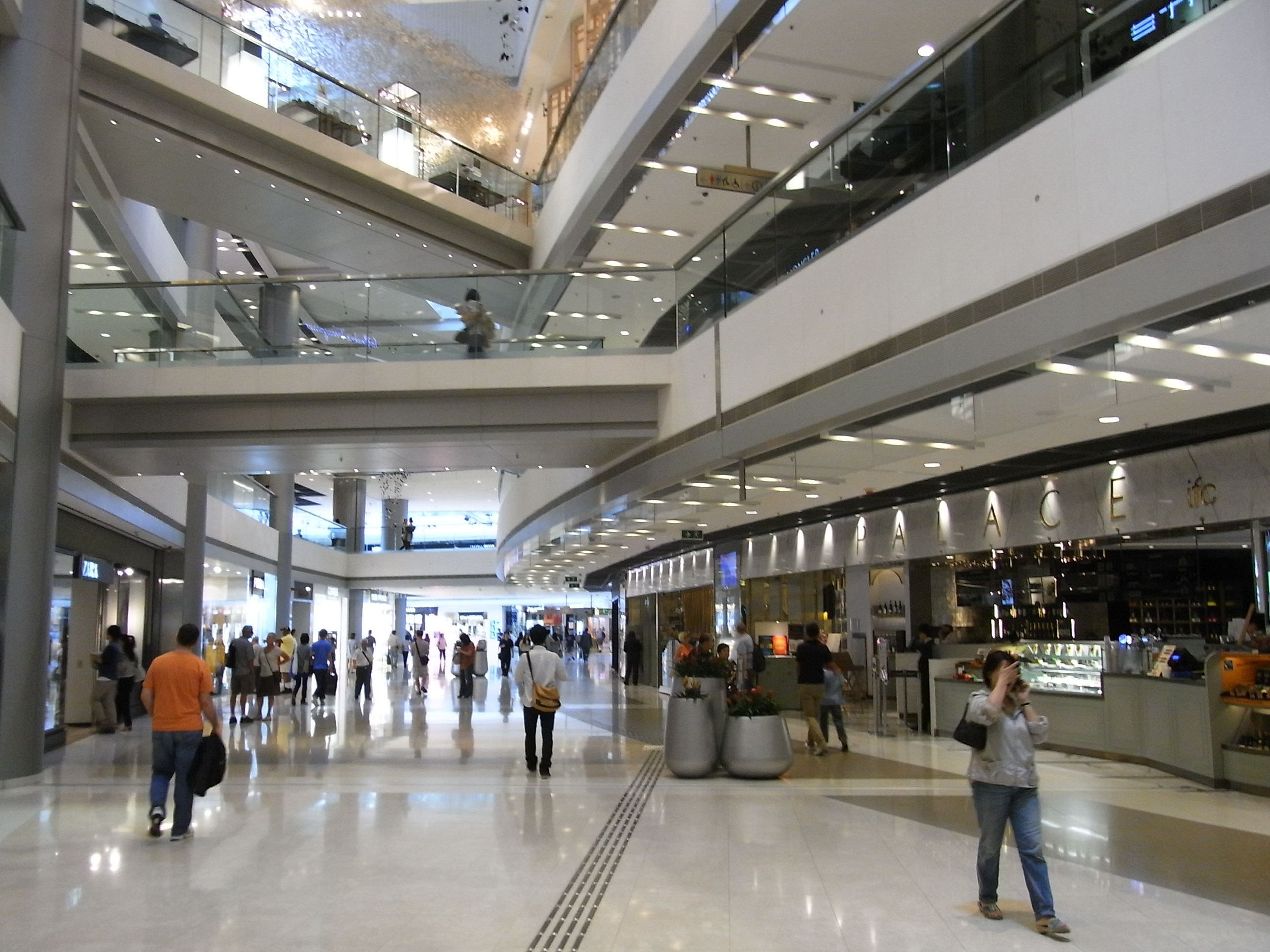 國際金融中心 商場, IFC Mall, Central, Hong Kong